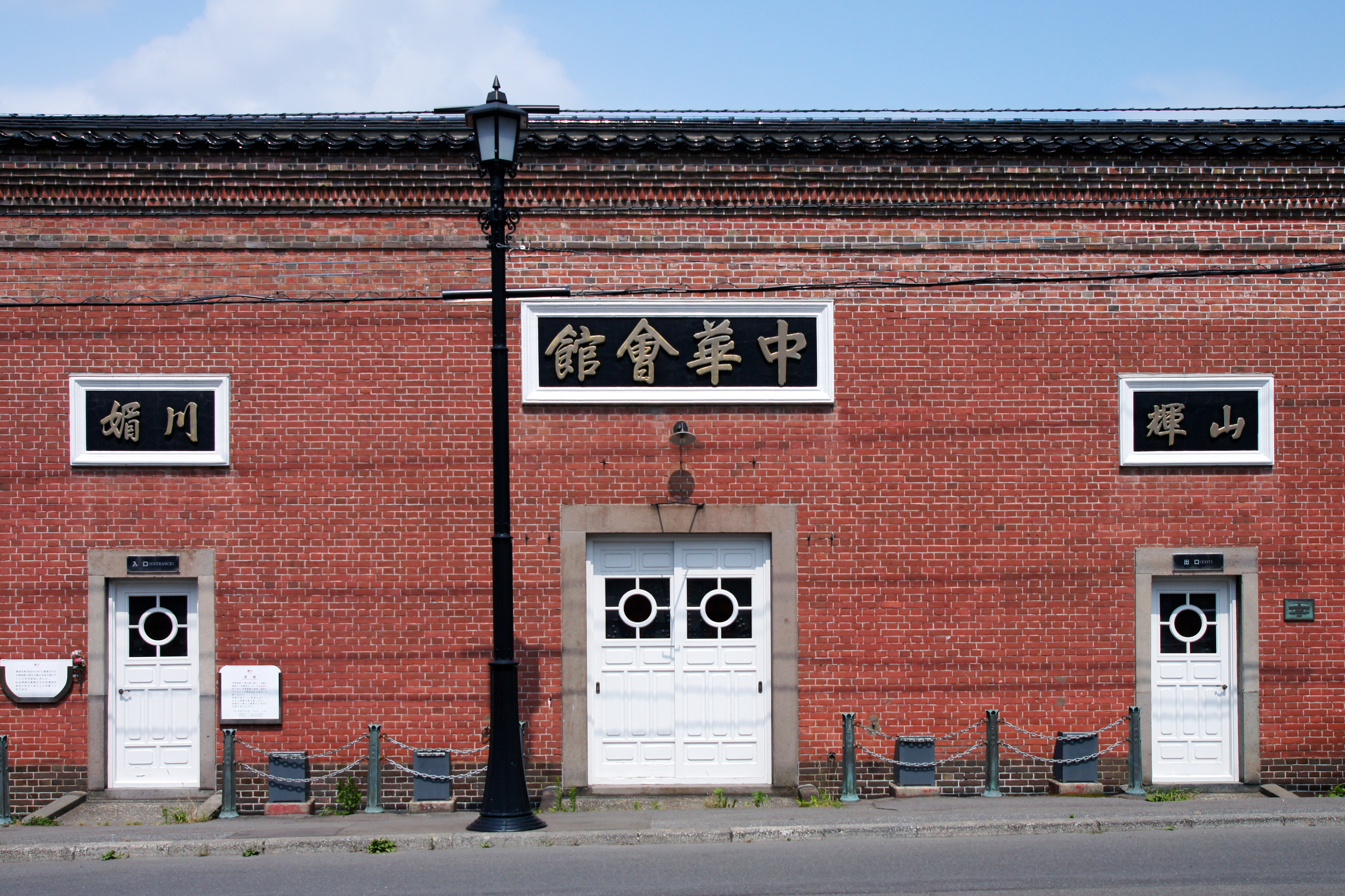 Chinese Memorial Hall in Hakodate, Hokkaido prefecture, Japan